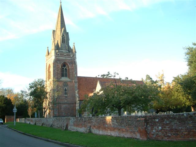 The Church of St Michael, in Tilehurst, Reading, England. For more information see the Wikipedia article Church of St Michael, Tilehurst.